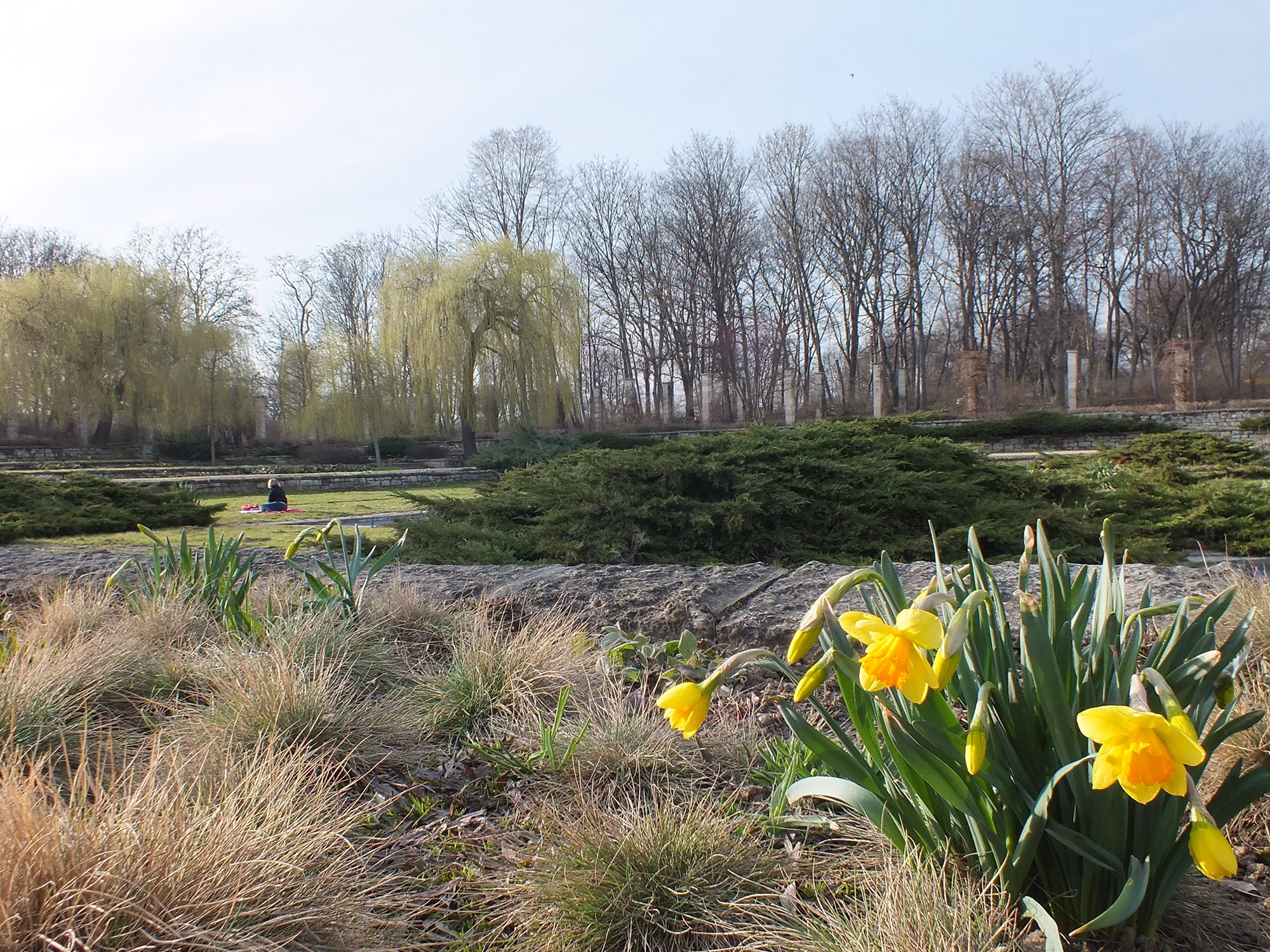 Der Richard-Wagner-Hain in Leipzig, Westteil